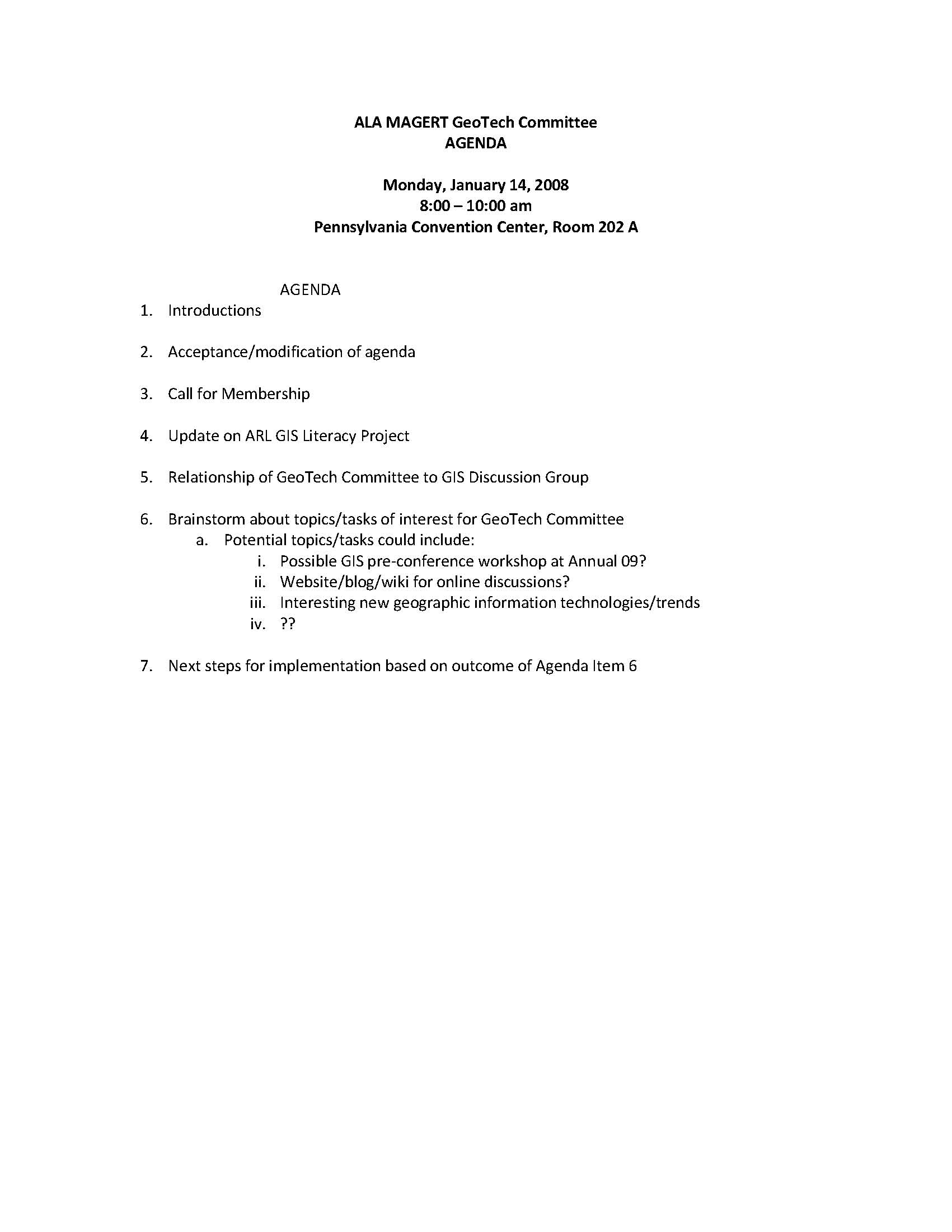 Final agenda for MAGERT's GeoTech Committee for the ALA MidWinter meeting in January 2008 in Philadelphia, PA.